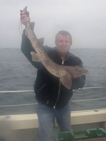 Very large catfish caught with a fishing rod in Ireland